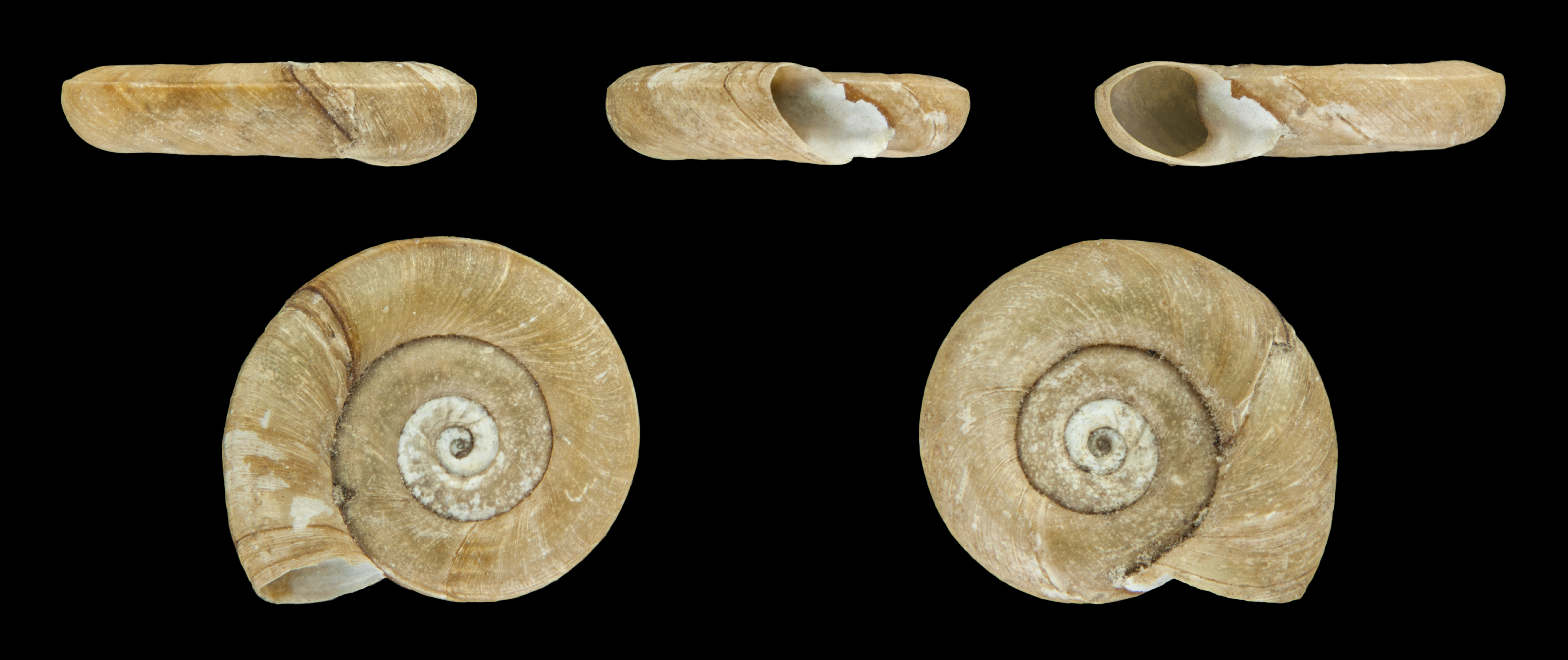 Planorbis planorbis (Linnæus, 1758), diameter 1.0 cm; Originating from Rappenwörth, Karlsruhe, Germany; Shell of own collection, therefore not geocoded.